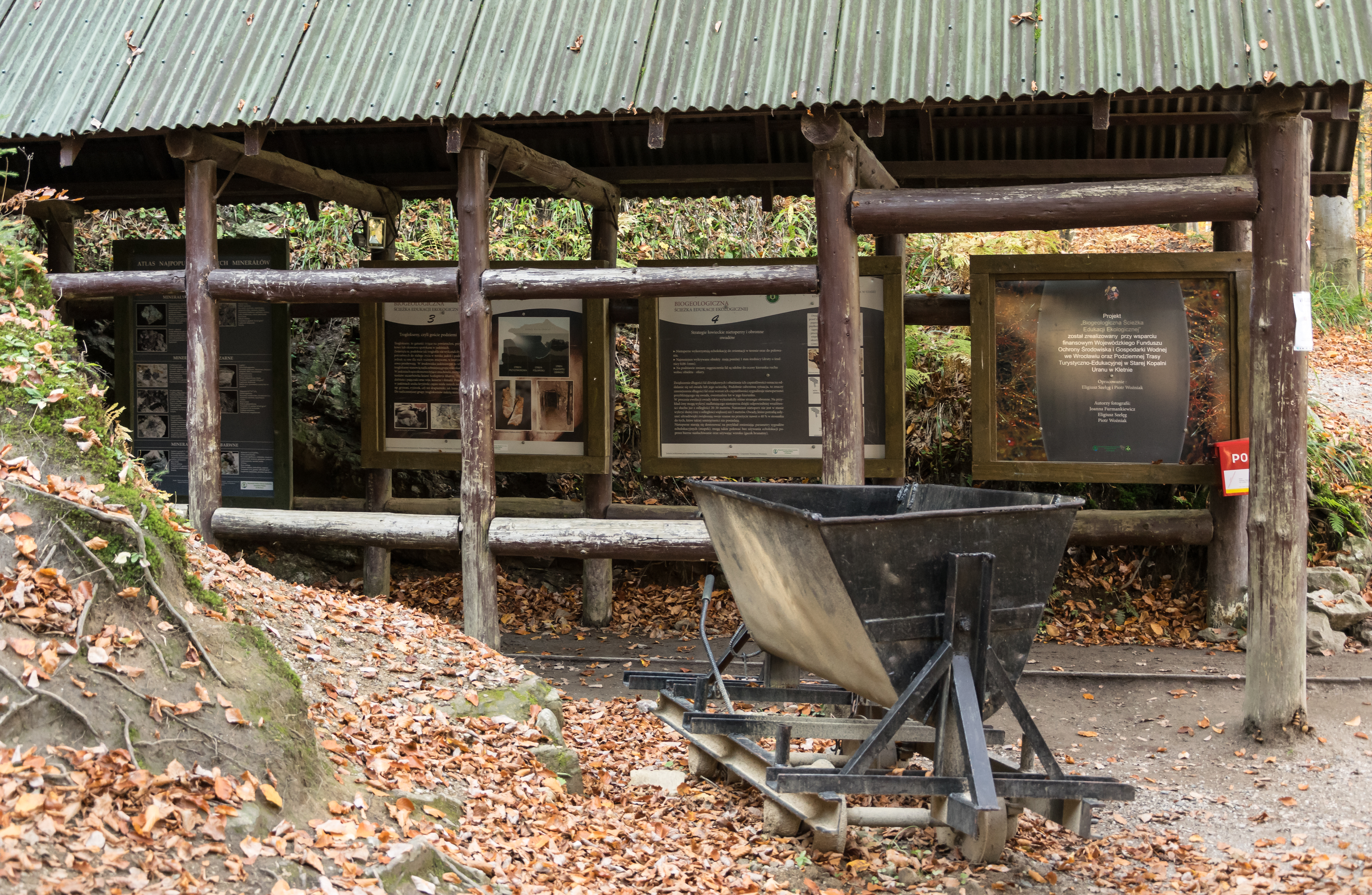 Former uranium mine in Kletno